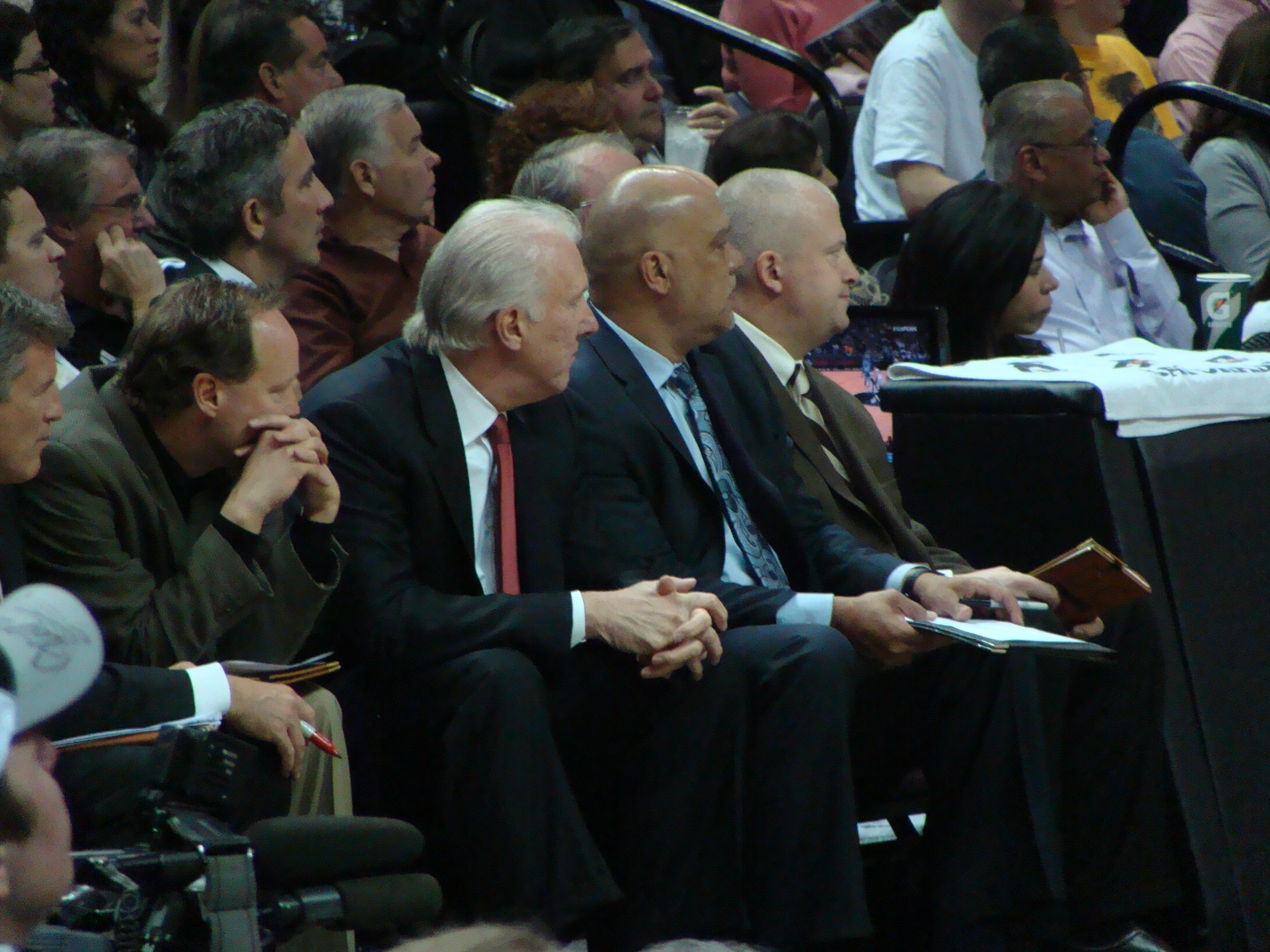 The coaching staff of the San Antonio Spurs, during the Spurs-Nuggets match, Dec 22, 2010. Pops, Don Newman, Brett Brown, and Mike Budenholzer are seen in the photo.